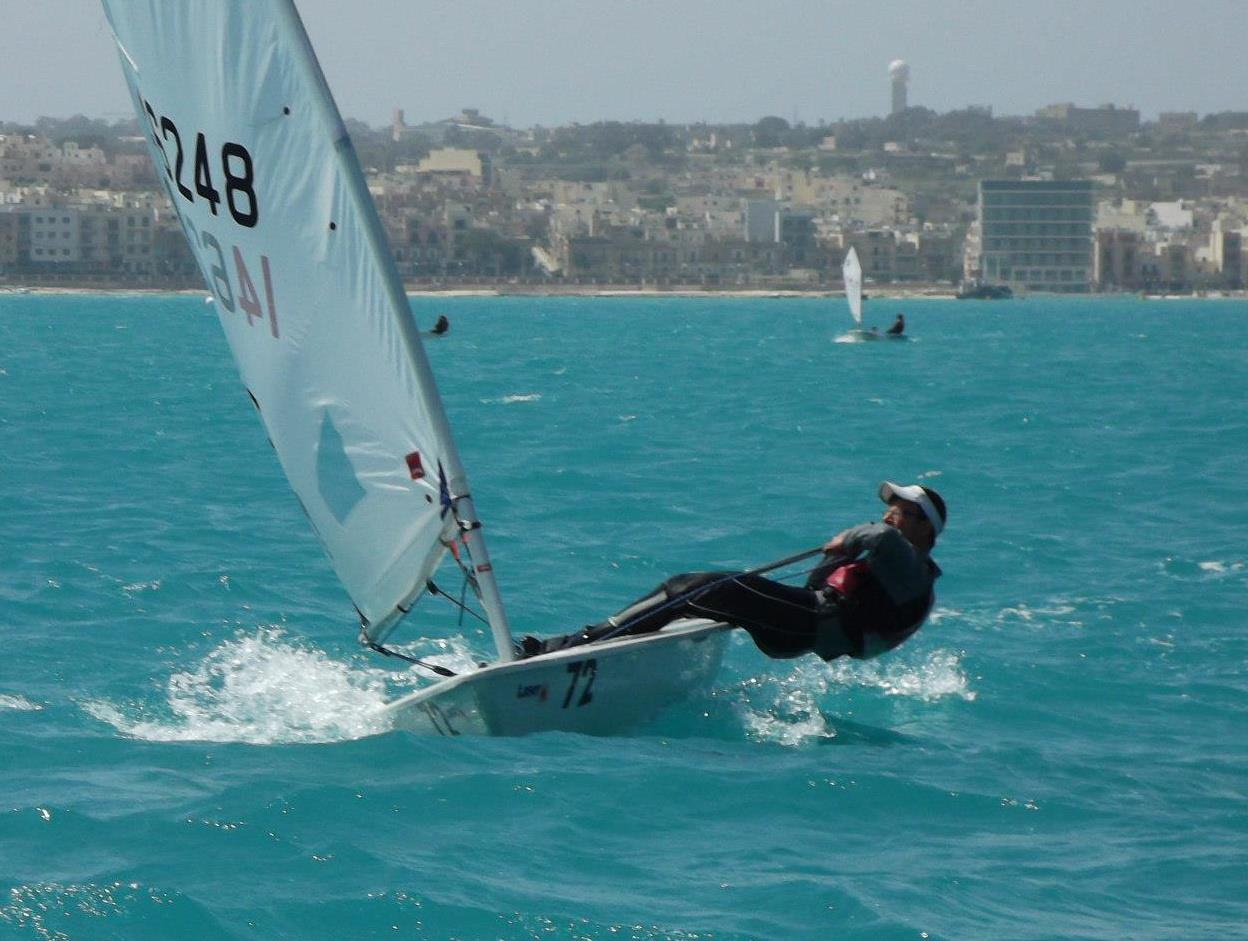 Laser Radial sailor Roberto Briffa.